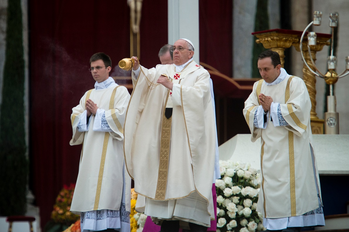 Canonization of Saint John XXIII and Saint John Paul II